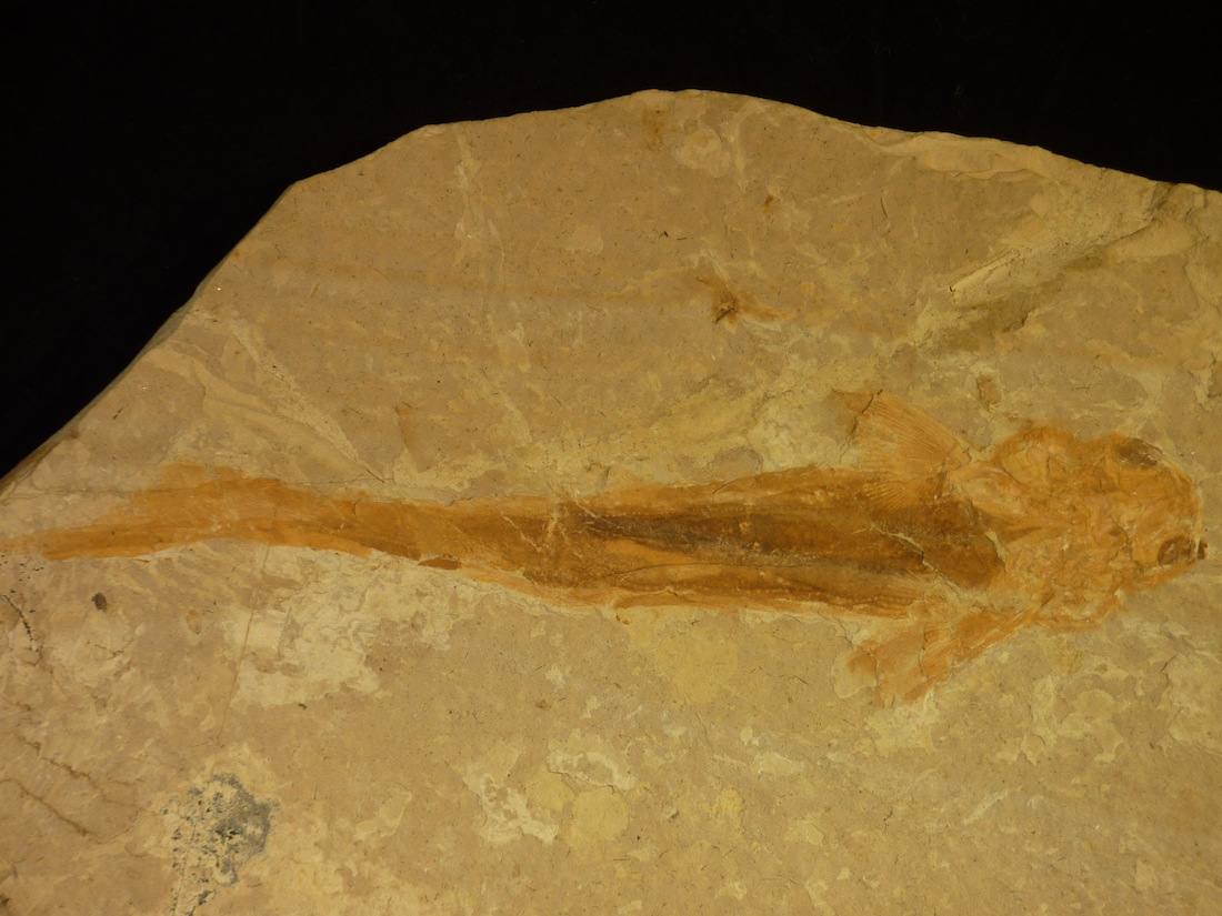 Peipiaosteus Pani fish prepared by Fossil Shack